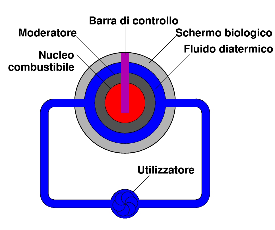 Schematic of a generic nuclear reactor (italian)